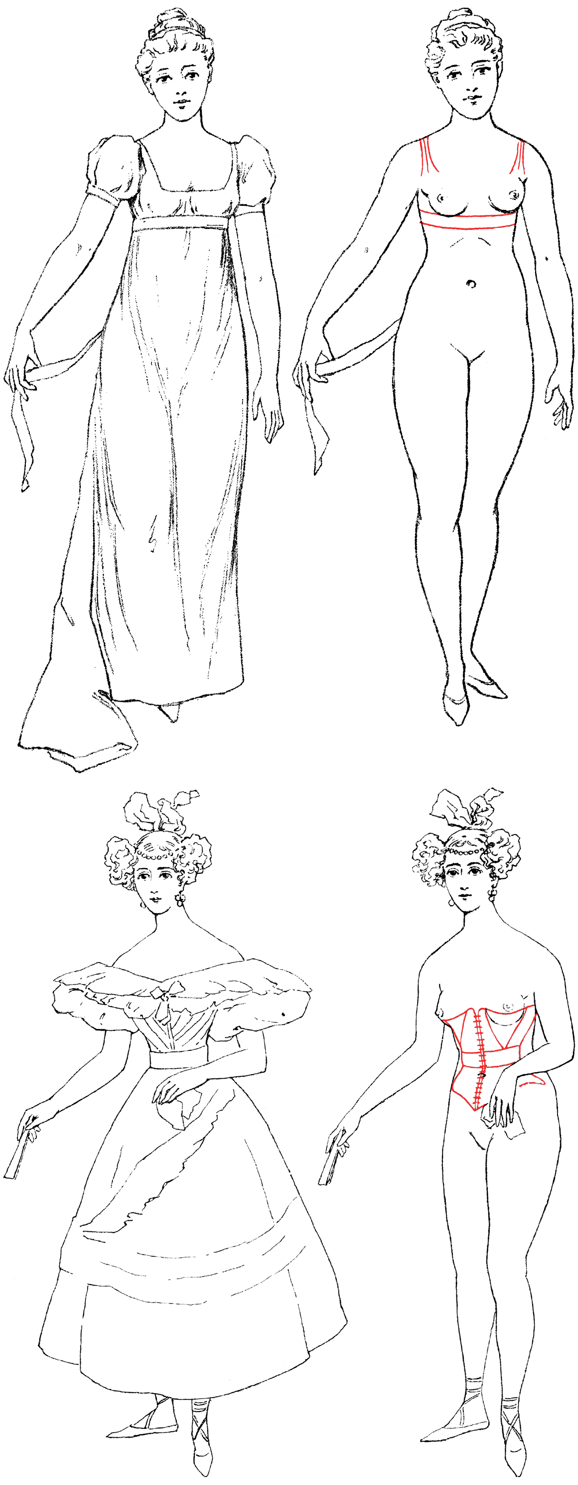 Analysis by Carl Heinrich Stratz (1858-1924) of the "pressure points" of women's clothing styles: that is, areas where the clothing is held tightly against the outline of the body, or from which the weight of the clothing is suspended. These are shown in red color in the image. Above: The pressure-points of ca. 1800 high-waisted "Empire" clothing styles. Below: The pressure points for ca. 1830 narrow-waisted clothing styles. Notice that the Empire style does not involve constricting the waist. Also, the Empire style involves partially suspending the weight of the clothing from the shoulders (something considered highly-desirable by many late 19th-century "dress-reform" advocates), and the overall weight of the Empire clothing would have been less than that of the 1830-era clothing. Upper left Fig. 73. Empirecostüm im Jahre 1800. (Costümbild aus dem Figaro illustré) Upper right Fig. 74. Körperumrisse von Fig. 73. Lower left Fig. 75 Costümbild aus dem Jahre 1830. (Journal des dames.) Lower right Fig. 76. Körperumrisse von Fig. 75.